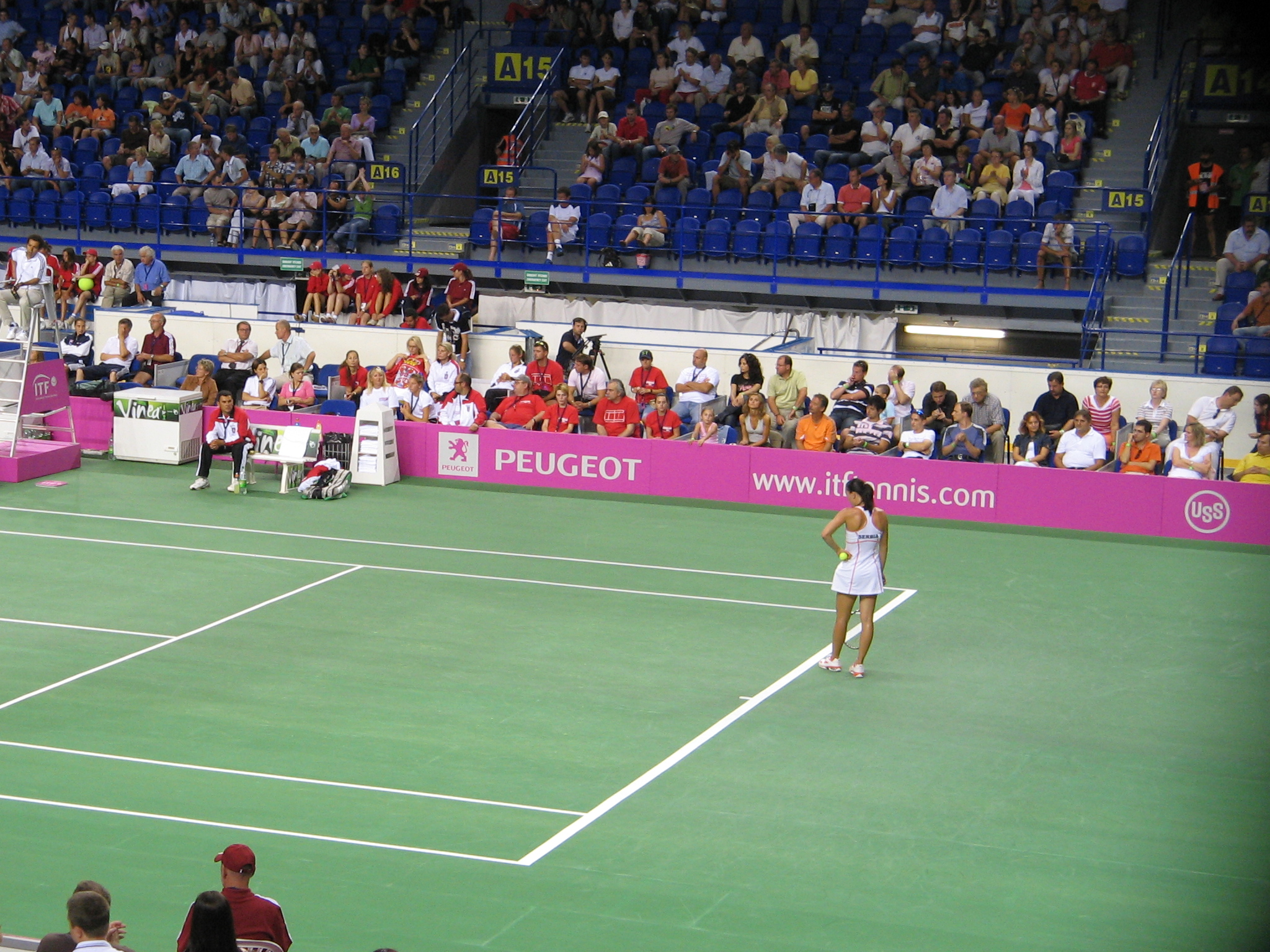 Jelena Janković playing for Serbian Fed Cup team in Košice, Slovakia